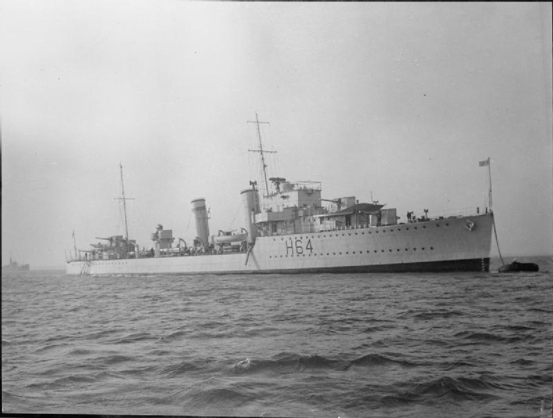 Royal Navy destroyer HMS Duchess at a buoy